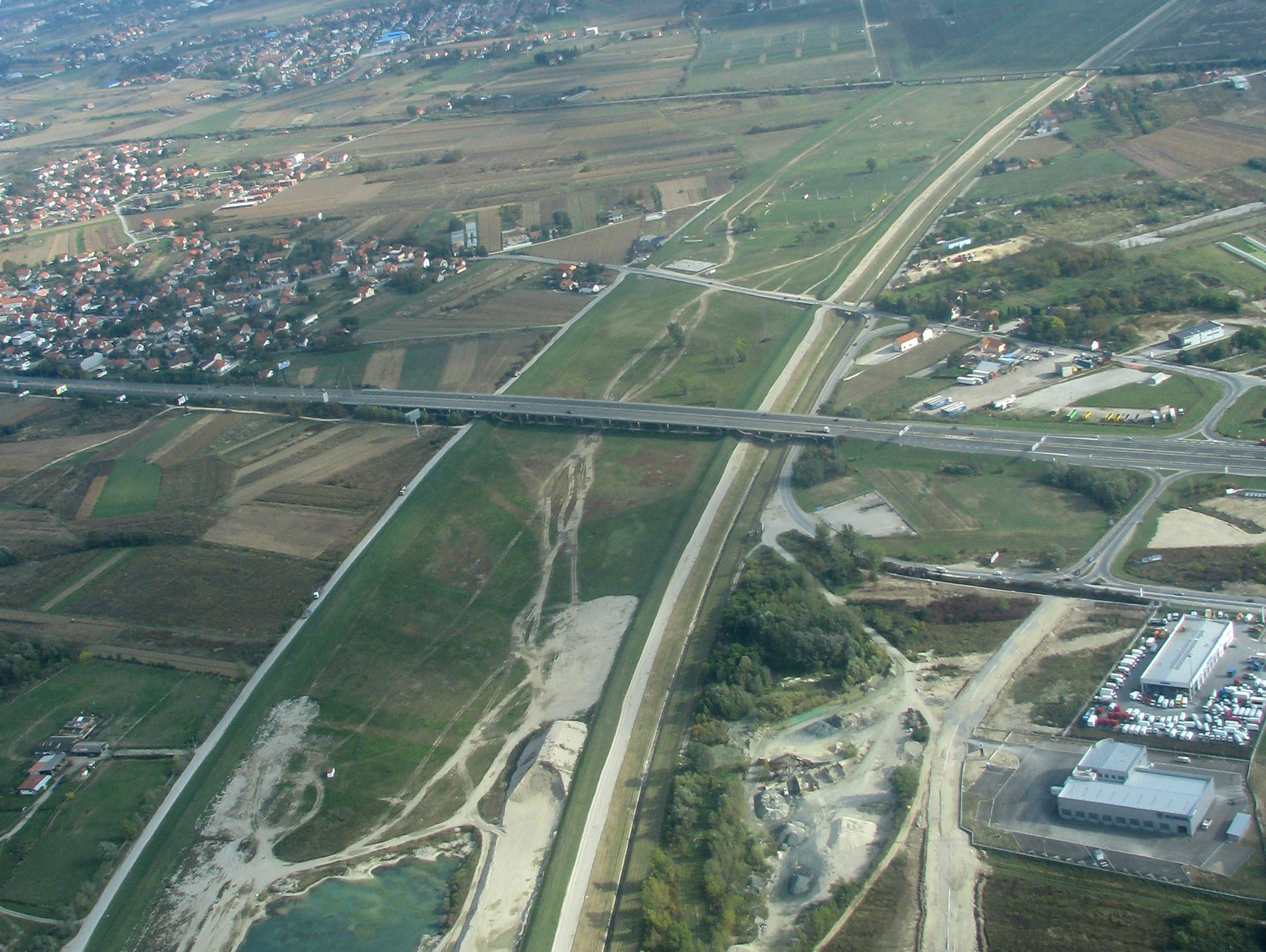 Bridge over Sava-Odra Channel in Zagreb